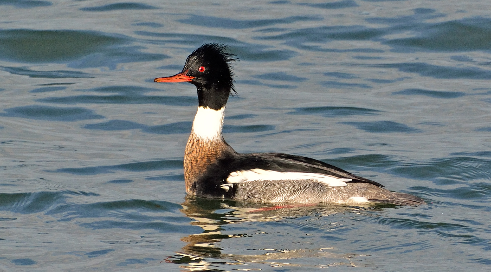 Red-breasted Merganser Mergus serrator, Flushing Bay, New York, USA.